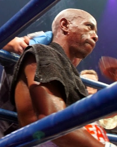 Mzonke Fana during the fight against Edis Tatli at the Barona Areena in Espoo, Finland.